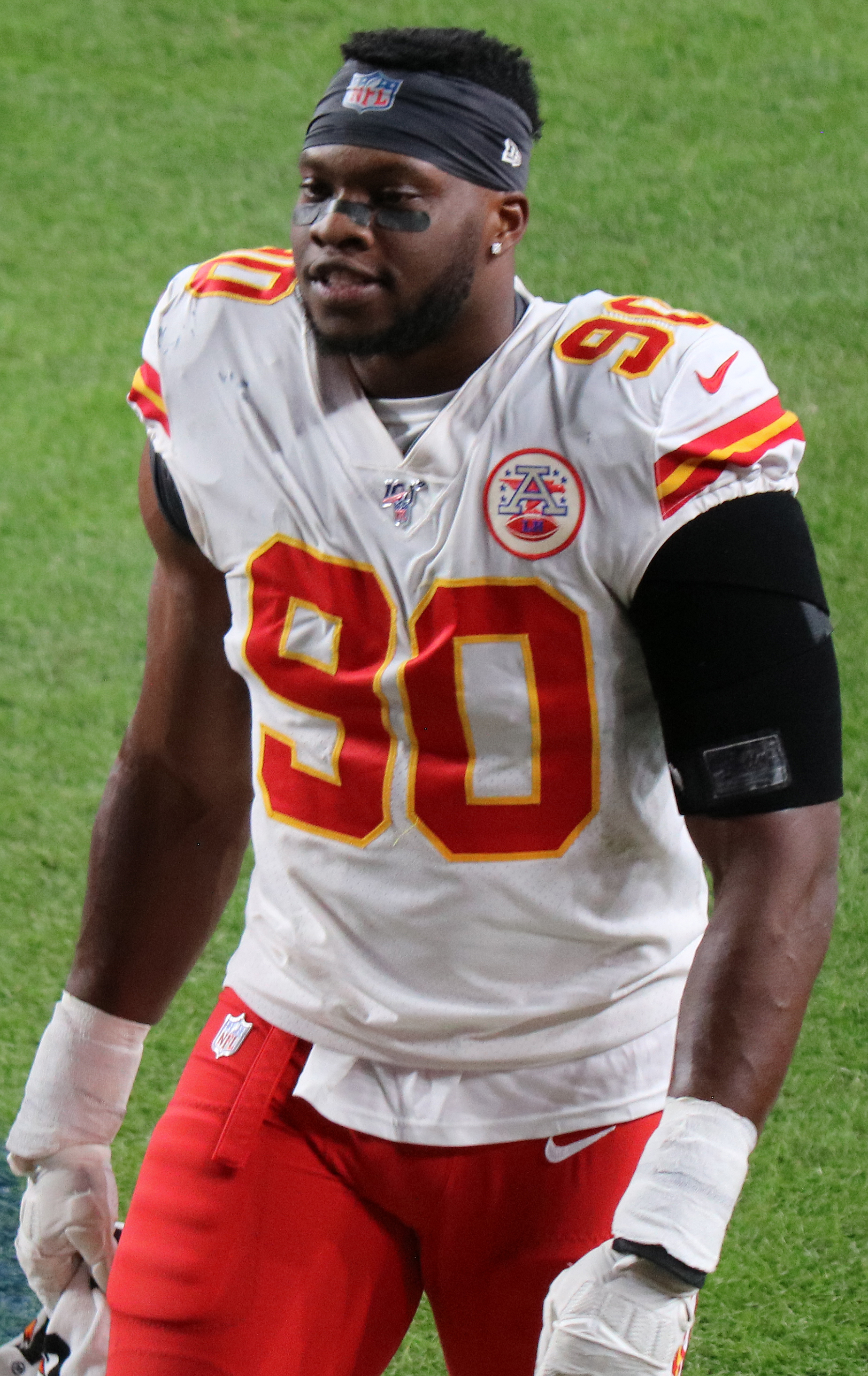 Emmanuel Ogbah, a National Football League player.